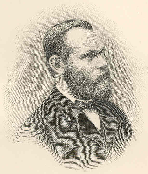 Karl Koldewey, Captain of the Germania Subject: Koldewey, Karl, 1837-, Ship captains Tag: People